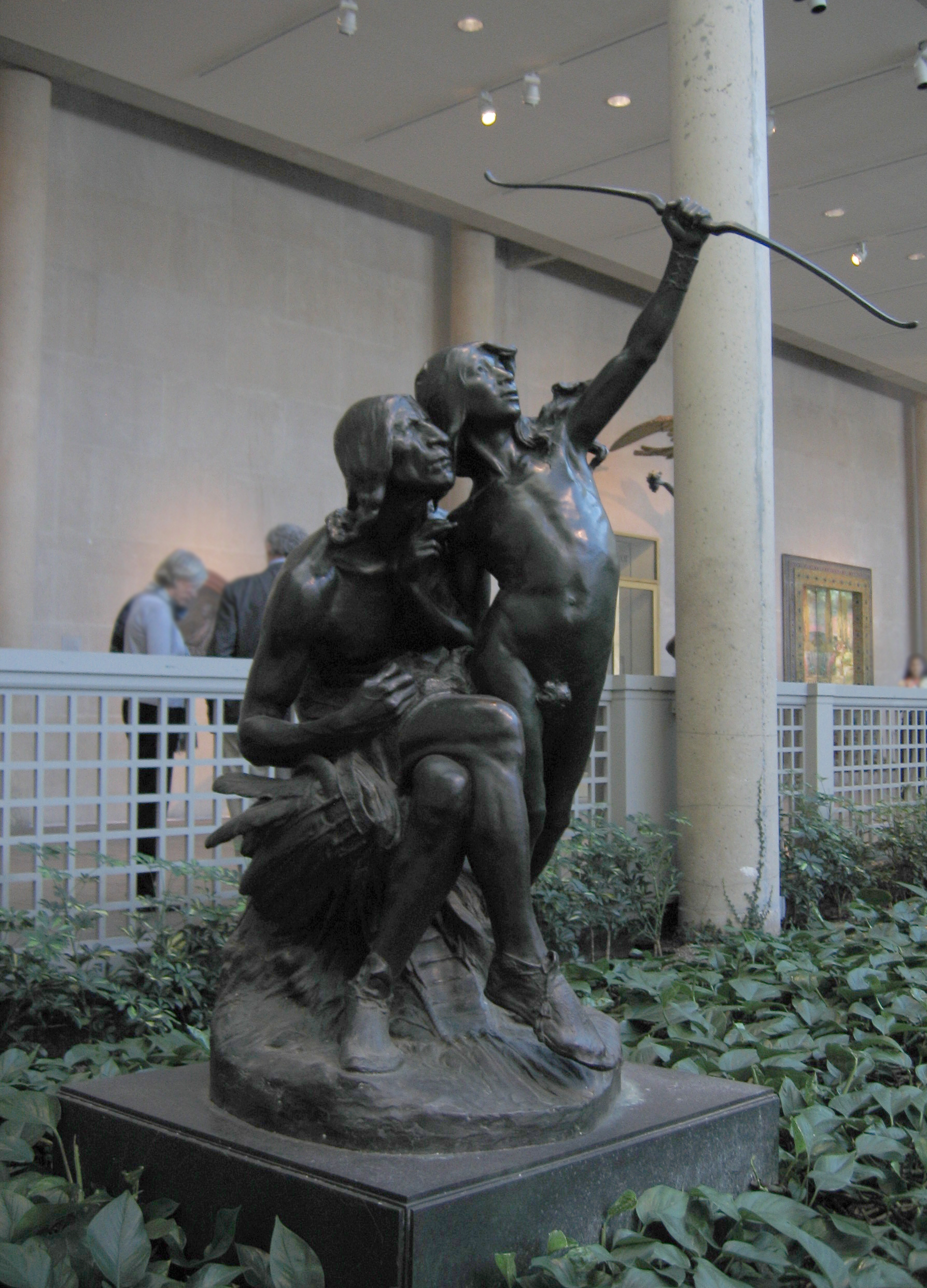 The Sun Vow, 1899; this cast, 1919. Hermon Atkins MacNeil (1866 - 1947). Bronze, Metropolitan Museum of Art, New York City.